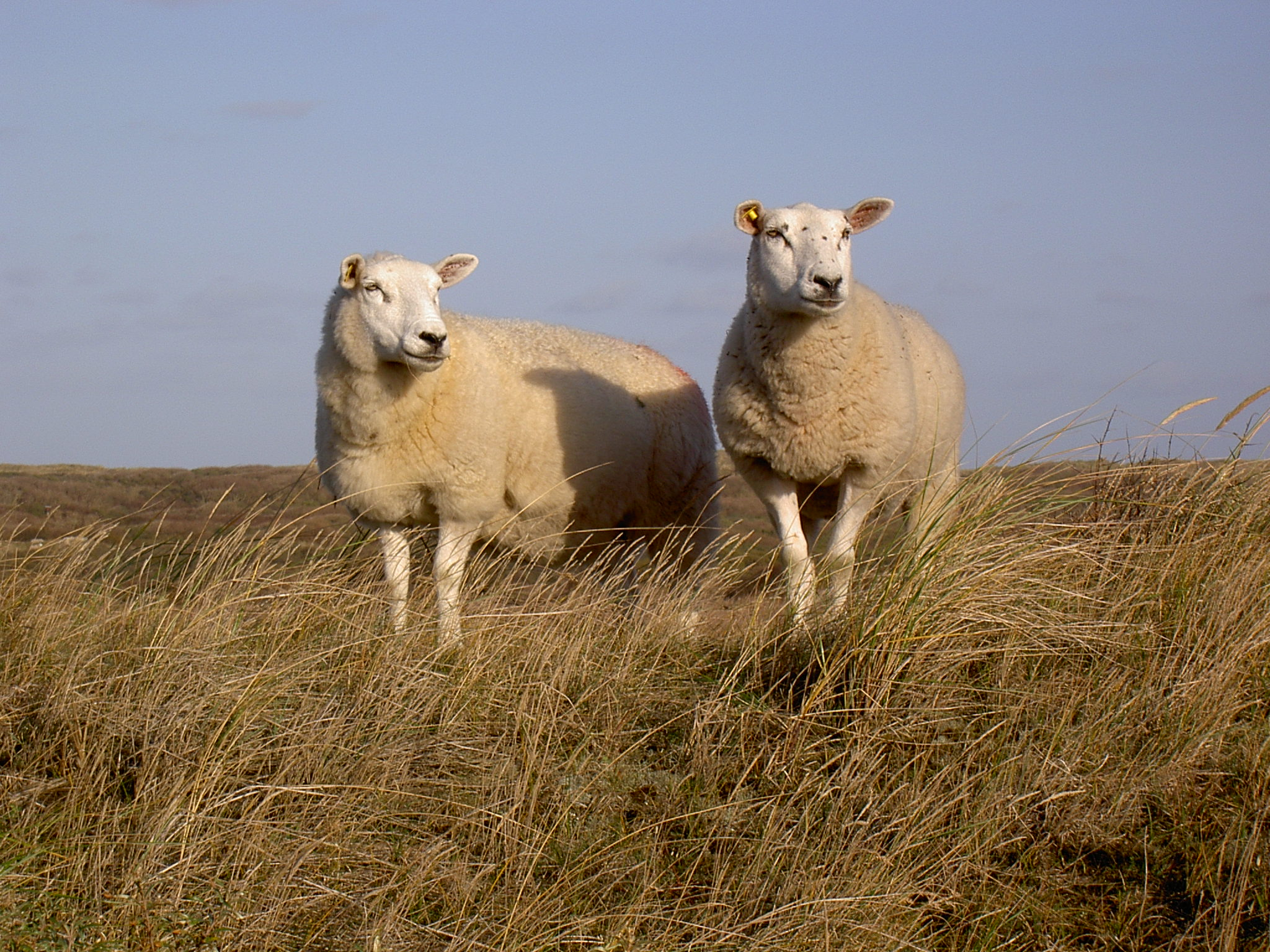 Texel sheep / Texelaar